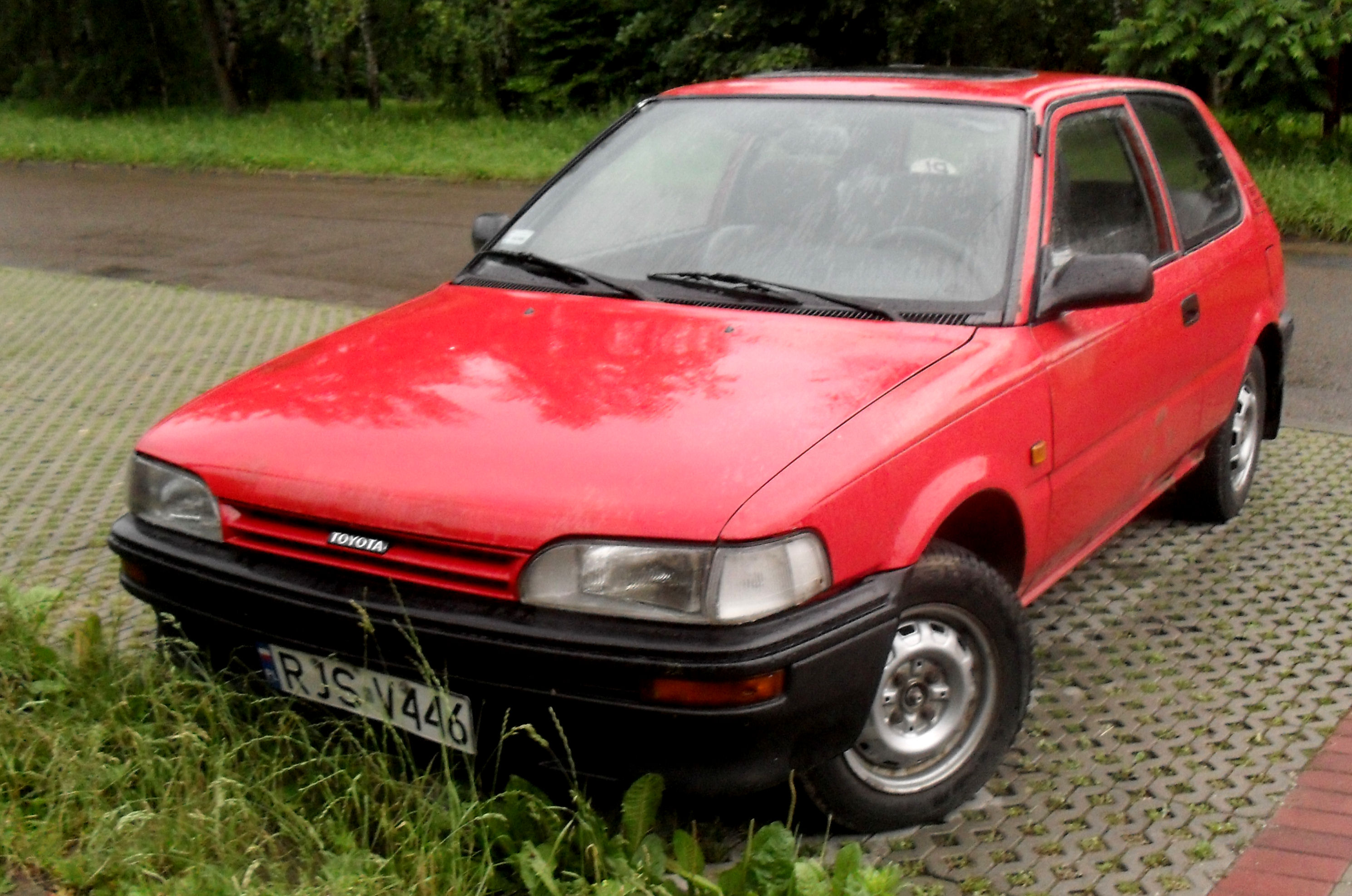 Toyota Corolla E90 seen in Jasło, Poland.